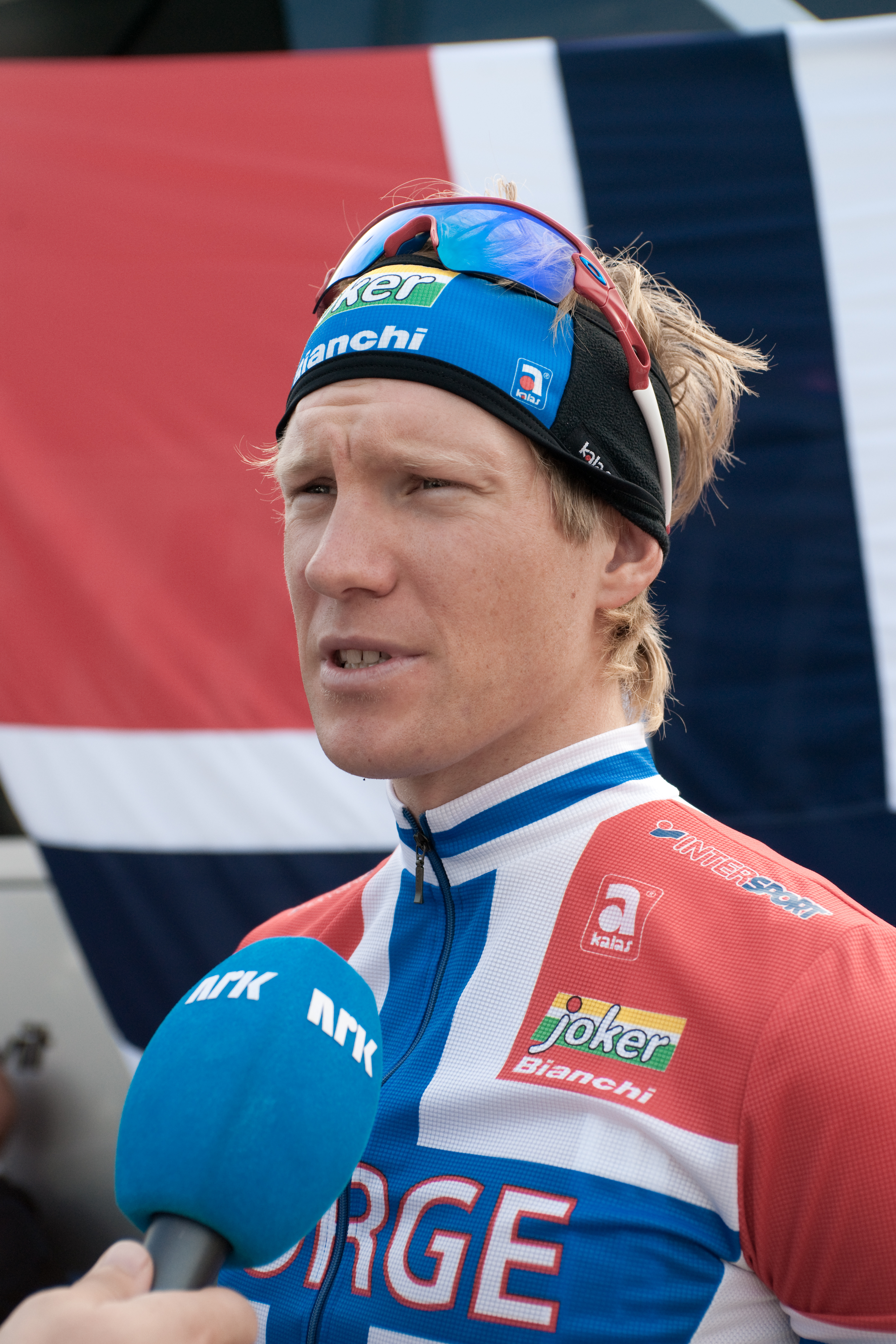 Lars Petter Nordhaug during the 2009 Road World Championship in Mendrisio, Switzerland.